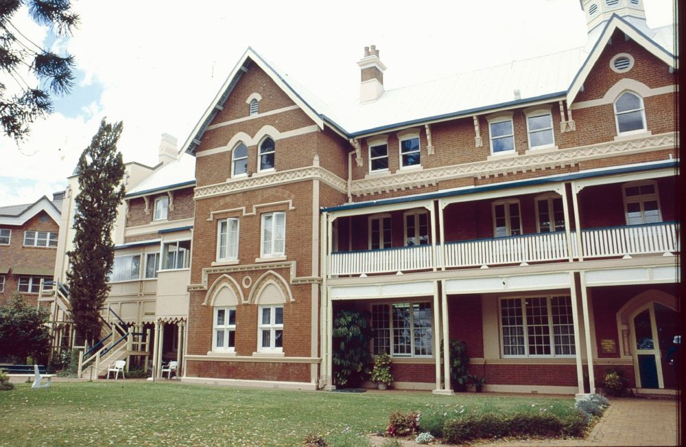 Toowoomba Grammar School (1994), angled view